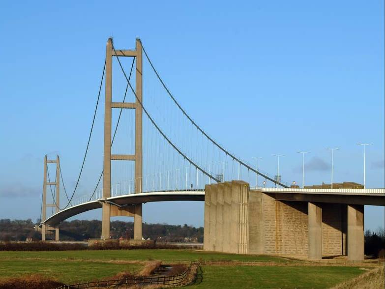 The Humber Bridge, taken from the South Bank (western side), Barton-upon-Humber, Lincolnshire, England.This image shows the size and structure of the bridge. You can see the size of the span and the curvature of the roadway. The steel cassions of the South Tower can just be made out, while the bulk of the south anchor can be easily seen.